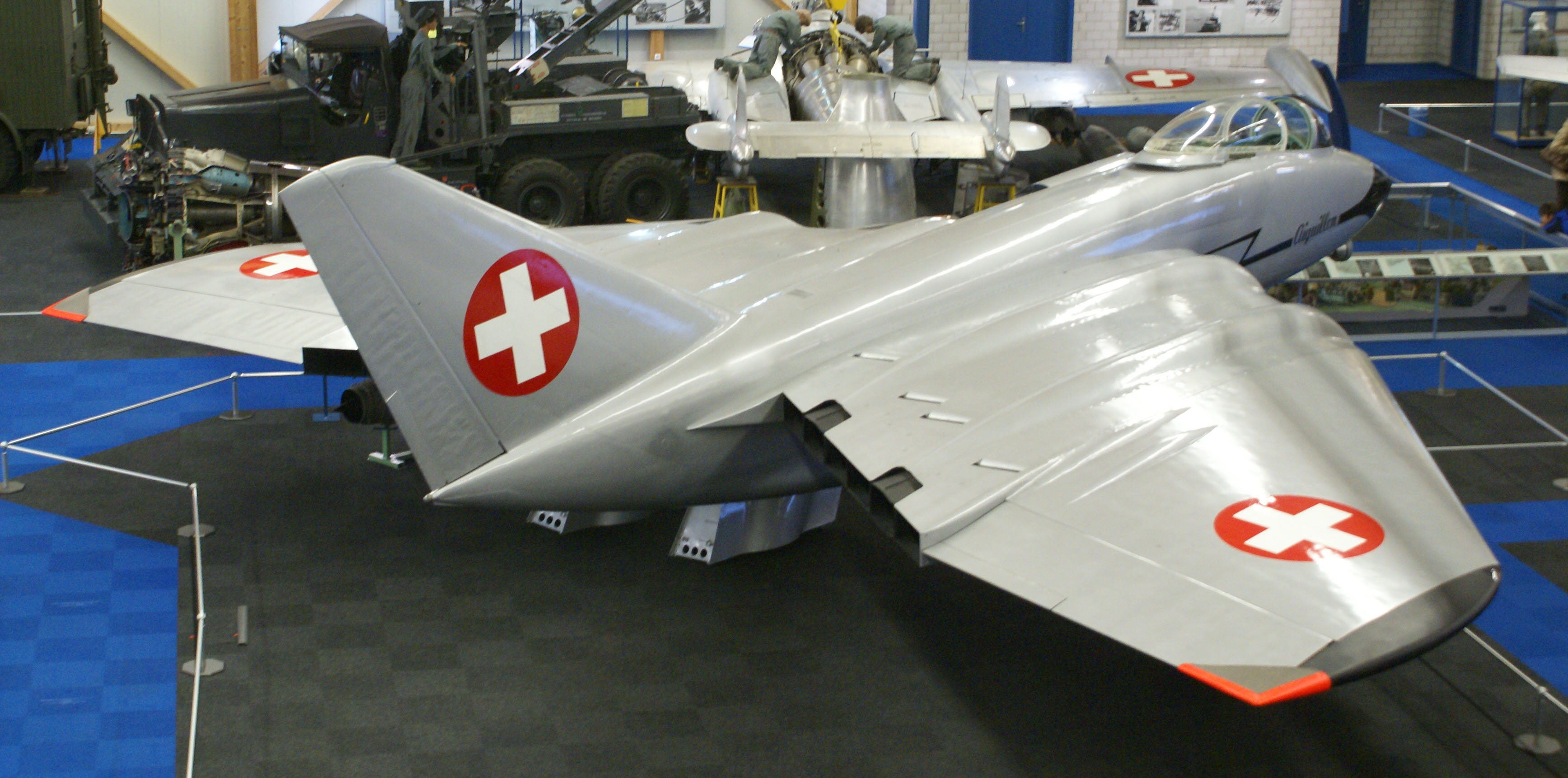 The sole prototype of the Swiss N-20.10 Aiguillon ("Sting") fighter-bomber aircraft developed in 1951 by Flug- und Fahrzeugwerke Altenrhein.